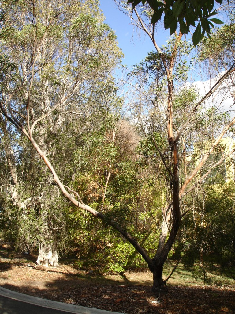 Photographed at Maranoa Gardens, Melbourne, Victoria, Australia by HelloMojo 08:27, 6 April 2007 (UTC)